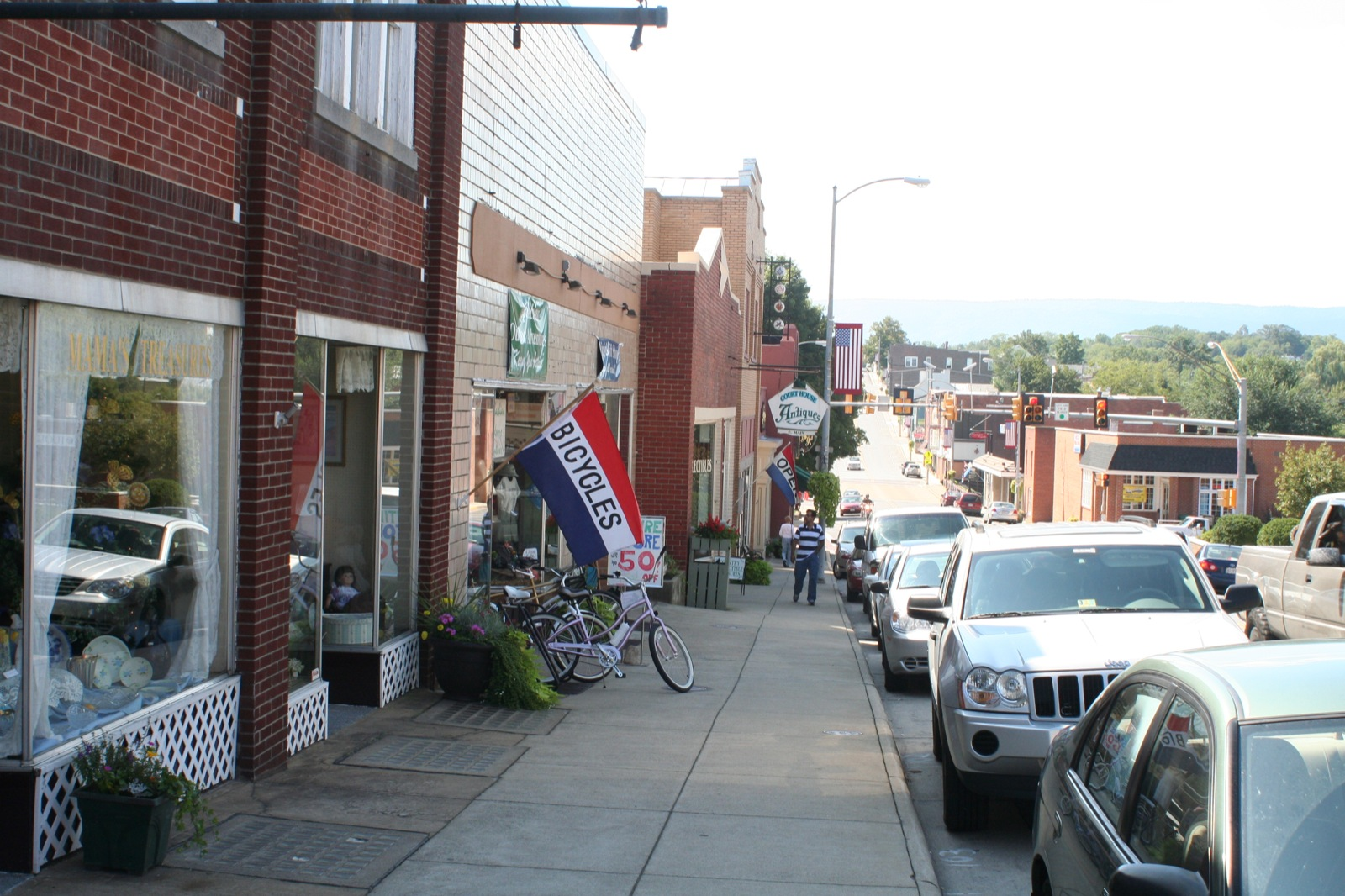 Downtown Luray, Virginia during midday